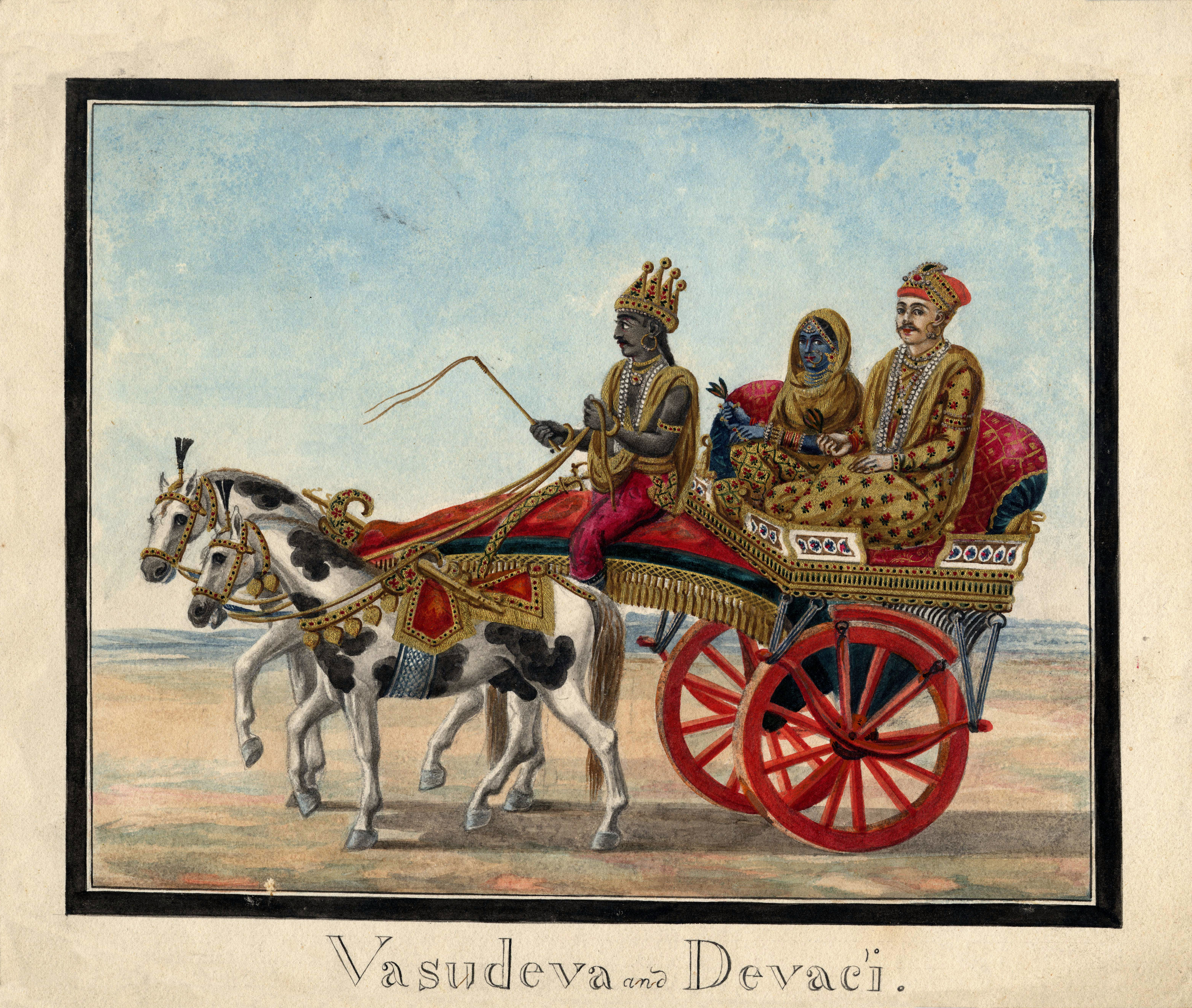 Vasudeva and Devaki traveling in a carriage. The carriage is ornately decorated and pulled by two horses who also have decoration on their bridle. The carriage is driven by a male figure wearing a golden crown and holding a whip and the reins of the horses. Vasudeva and Devaki, the parents of Kṛṣṇa, ride at the back of the carriage. They each hold a flower in their right hands and are lavishly attired. They wear golden clothing and large amounts of jewellery. The carriage travels along a flat landscape and the painting is surrounded by a black border.